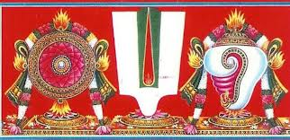 The tilak used by Thenkalai Sri Vaishnavas flanked by Panchajanya(conch) and Chakra(disc like weapon).